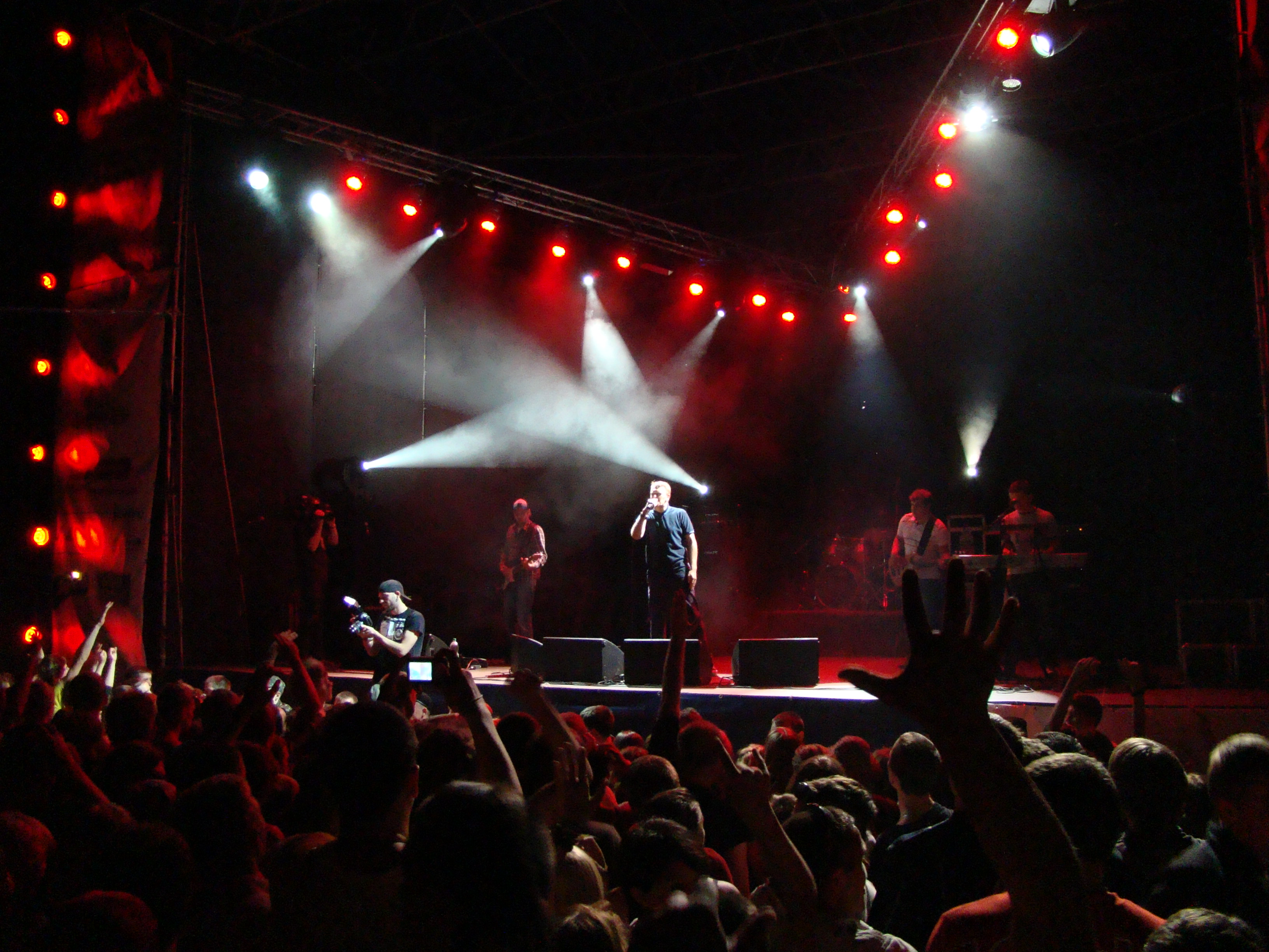 "Tartak" at Zashkiv Festival 2011.